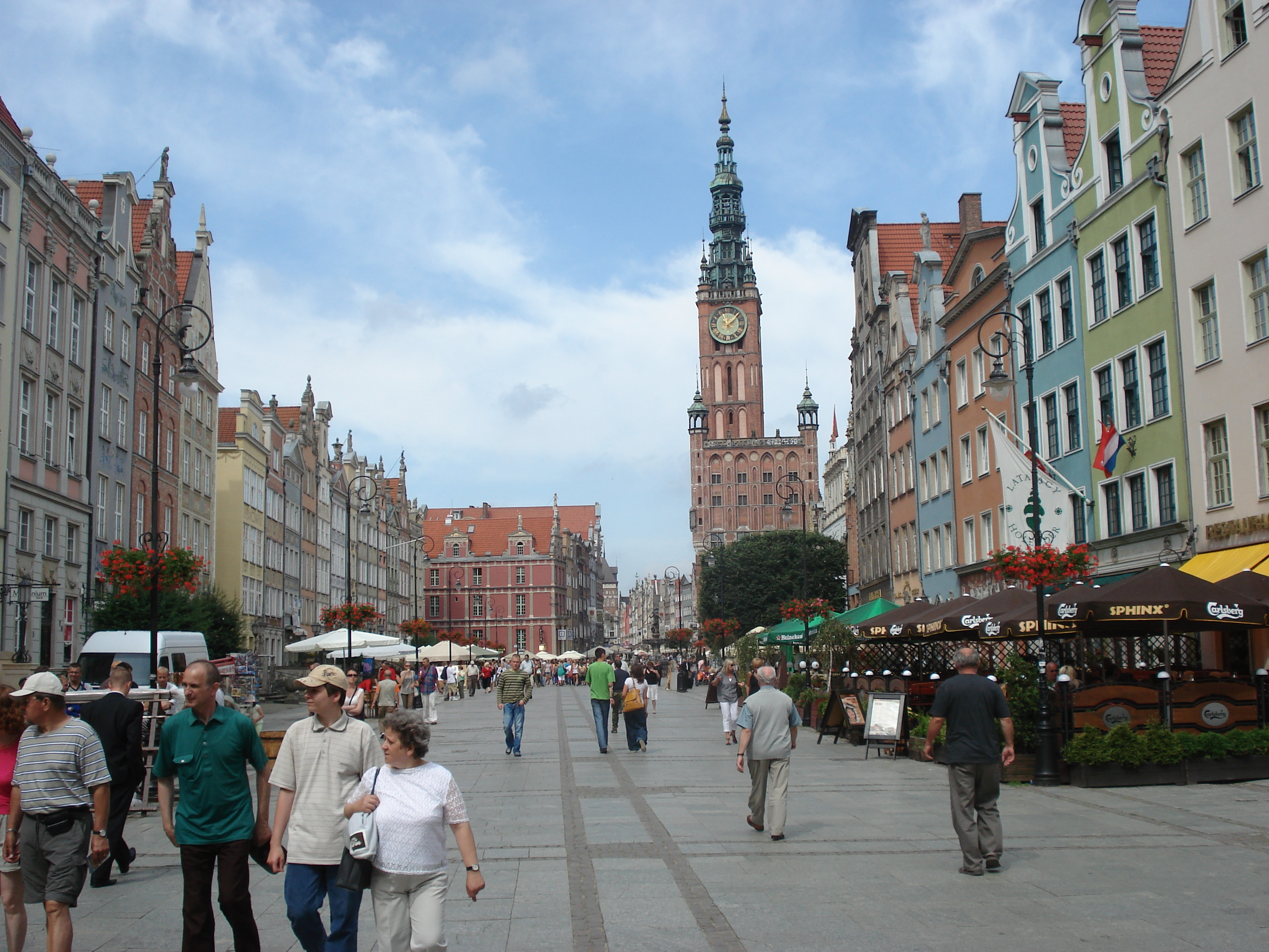 Long Market Square in the Main Town of Gdańsk